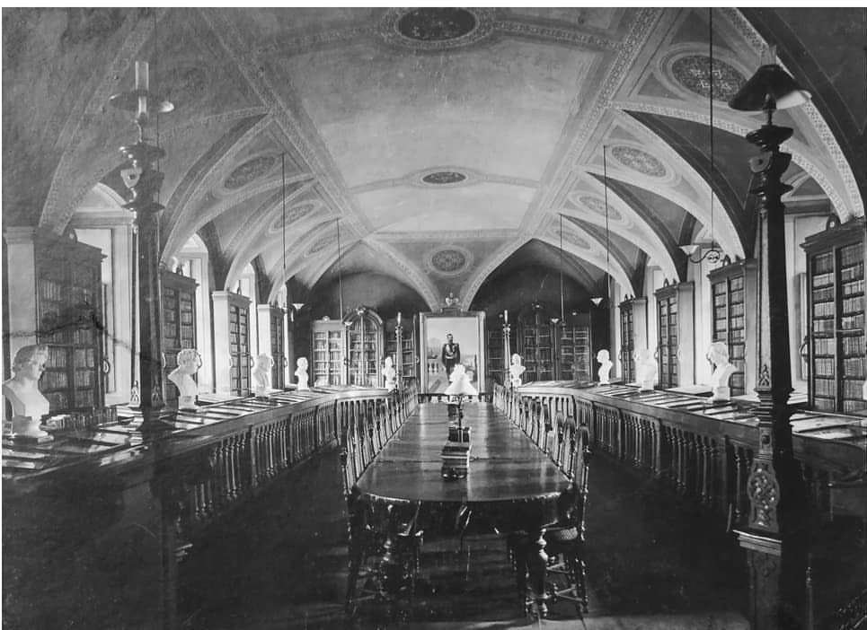 Museum of Antiquities in Vilnius (present-day Hall of Pranciškus Smuglevičius). Portrait of Nicholas II of Russia is located at the end of the hall.